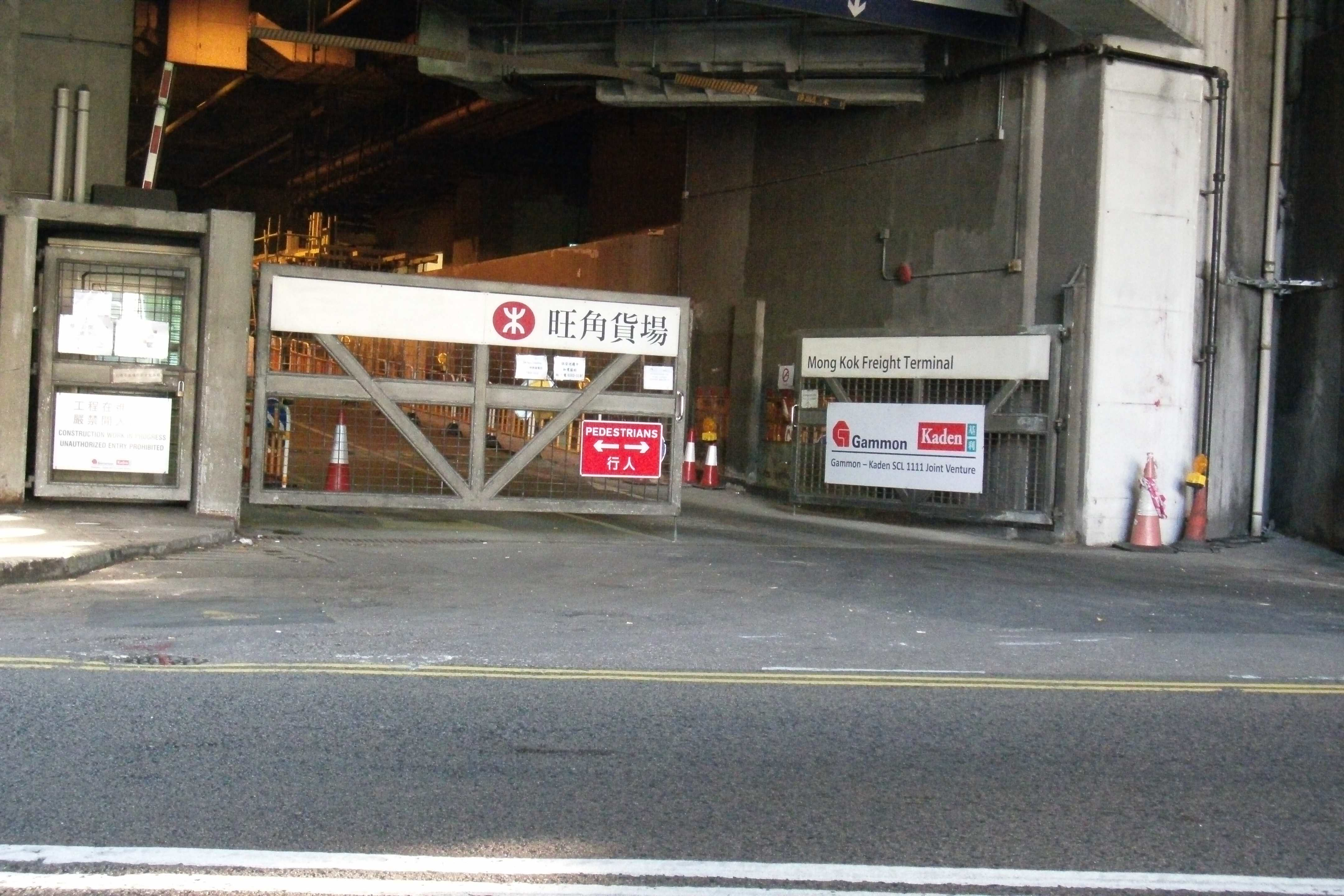 MTR Mong Kok Freight Terminal entry